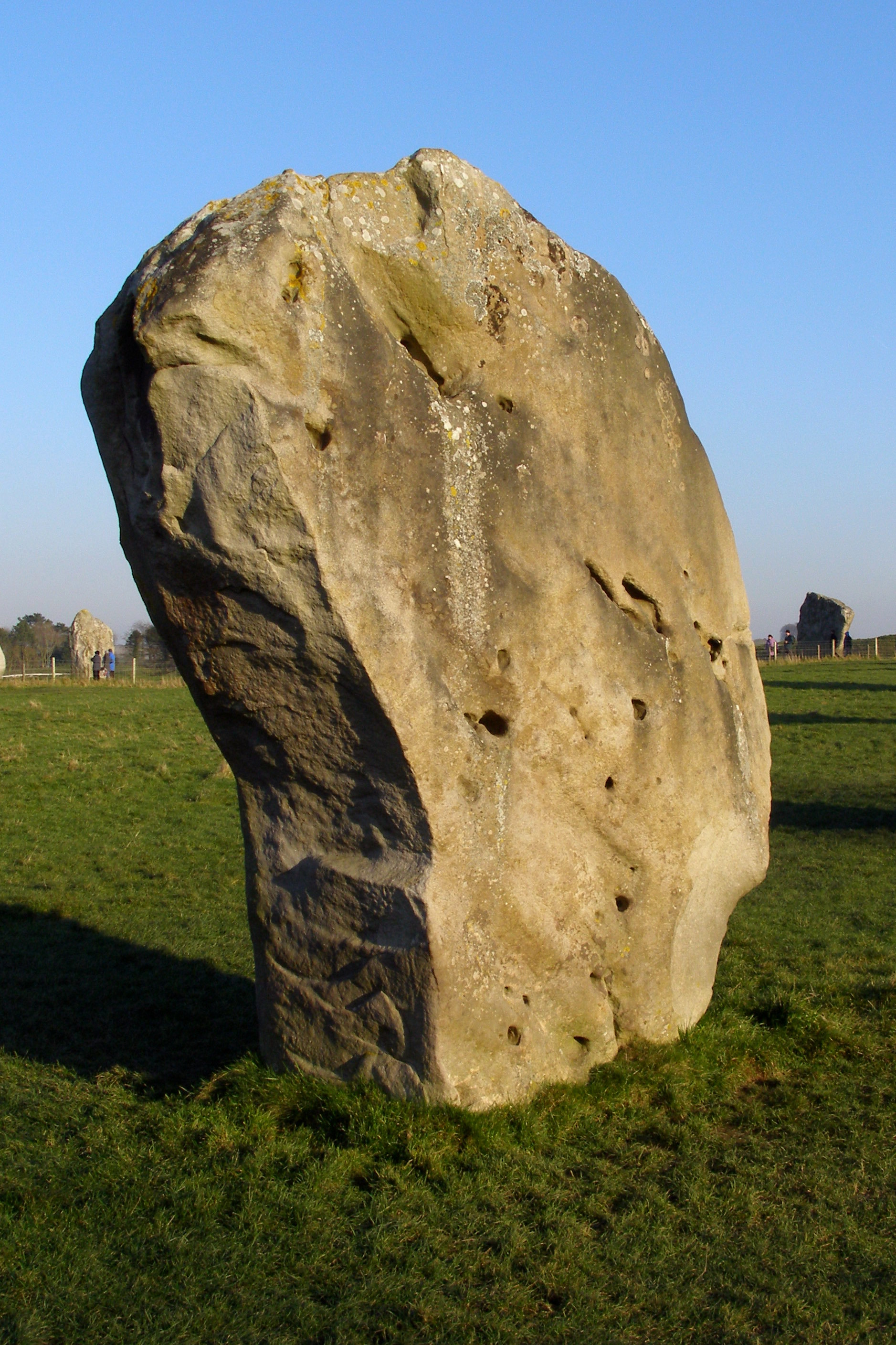 Stone 9 of the south-west quadrant of Avebury henge's Great Circle, also known as the Barber Stone or the Barber-Surgeon Stone.